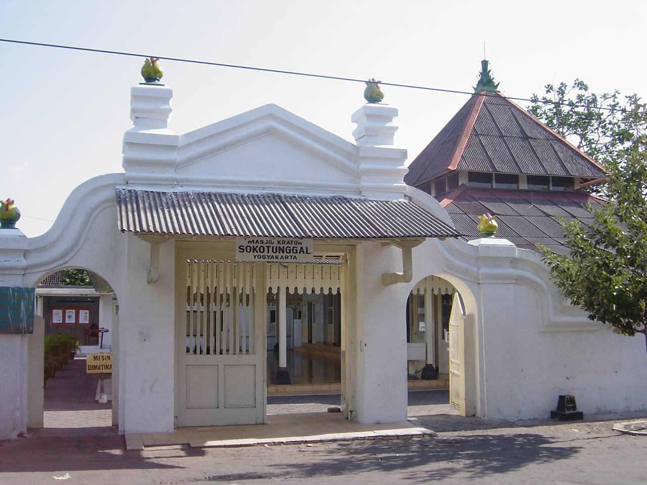 Soko Tunggal Mosque in the Kraton of Yogyakarta